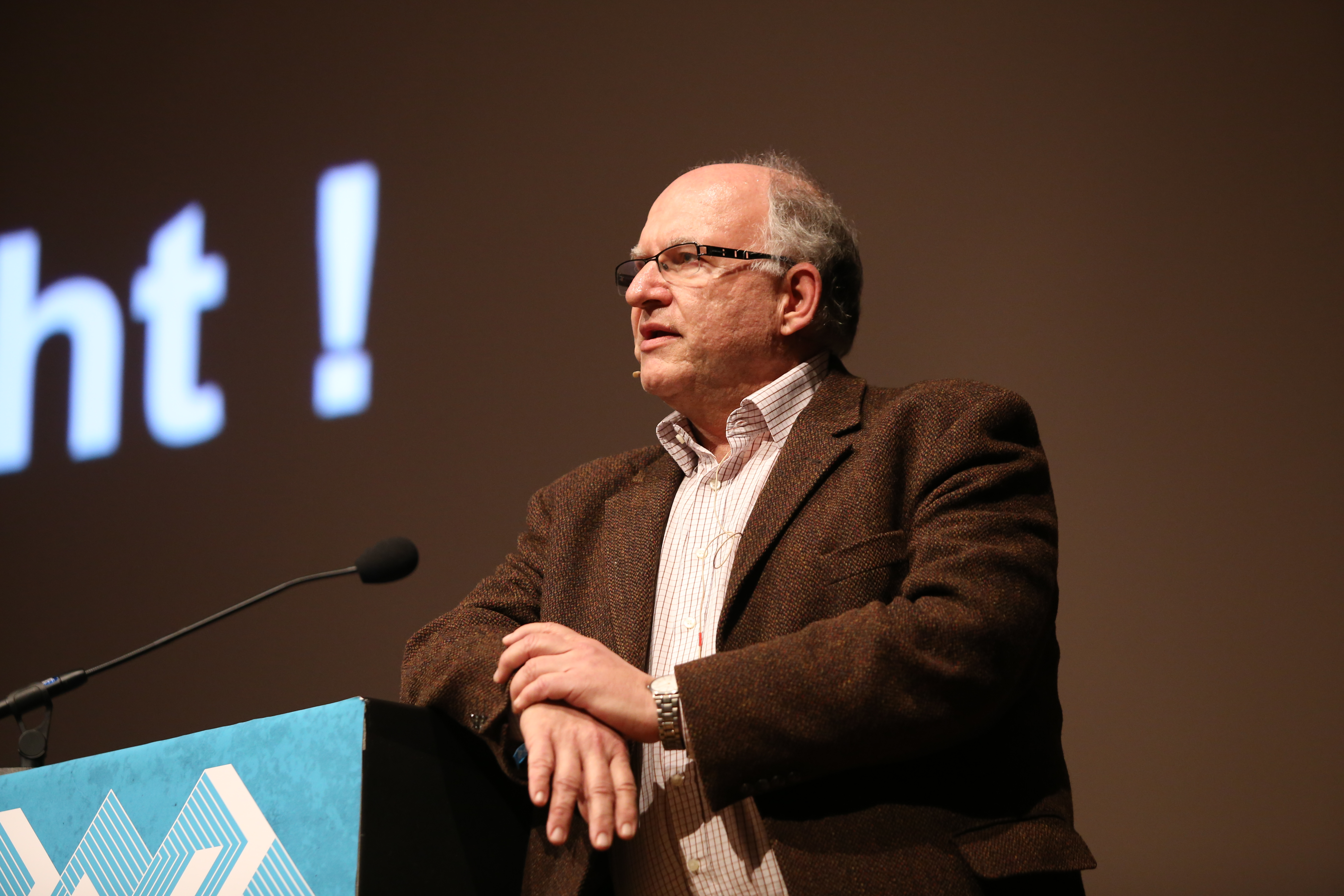 Peter Schaar at the 30th Chaos Communication Congress in Hamburg, 2013